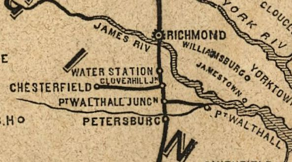 Richmond and Petersburg Railroad as shown on "Railroads in Virginia and part of North Carolina, drawn and engraved for Doggett's Railroad Guide & Gazetteer"